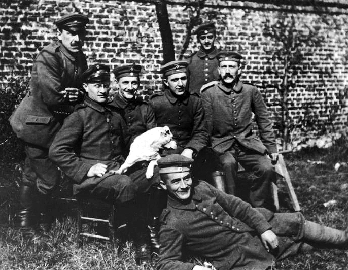 Immediately after the mobilization, on 3 August 1914, Adolf Hitler request was approved to the King Ludwig III. From Bavaria to the entering the Bavarian Army. On 16 August Adolf Hitler was accepted as a war volunteer and assigned to the Bavarian Reserve Infantry Regiment No. 16 (cunning), to which Adolf Hitler up to the end of war belonged. Adolf Hitler with its war comrades of the Bavarian Reserve Infantry Regiment 16. From left to right: standing: Sperl (Munich), litographer, Max Mund (Munich), gilder, sitting: George Wimmer (Munich), tramway conductor, Josef Inkofer (Munich) Lausamer (Fallen), Hitler, lying: Balthasar Brandmayer (Bad Aibling), bricklayer. 11.8.39 [publication date] de-left-schm 115 press Hoffmann